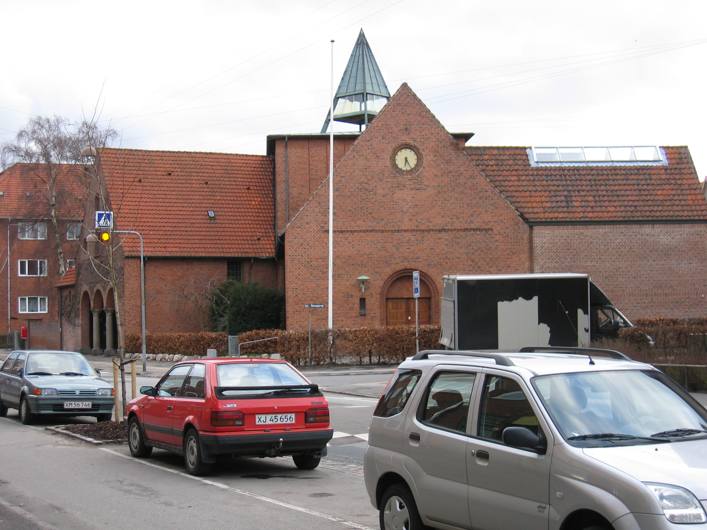 Ansgar church, Ansgarkirken Parish, Sokkelund Herred, København County, Denmark